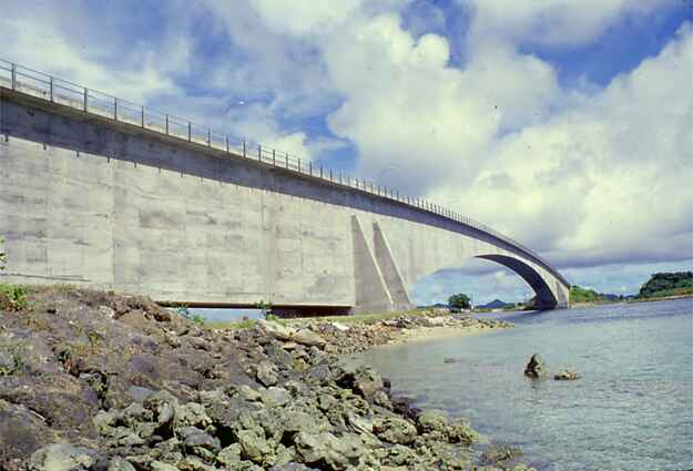 Former Koror-Babeldaob Bridge